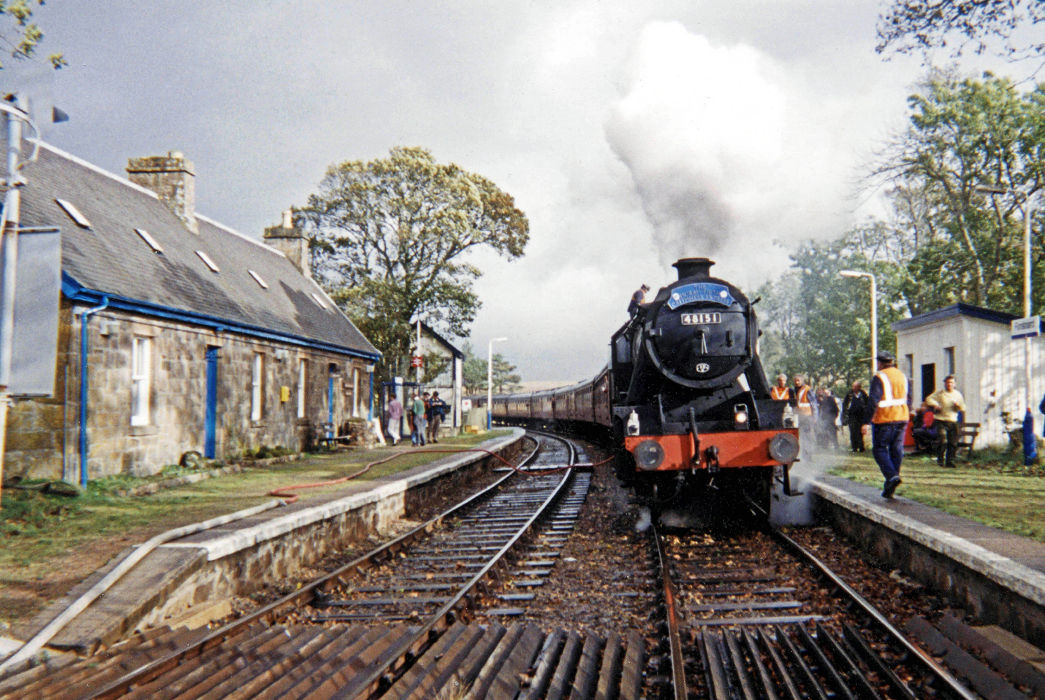 Forsinard railway station looking north with southbound excursion train hauled by LMS 8F loco 48151 in 1998